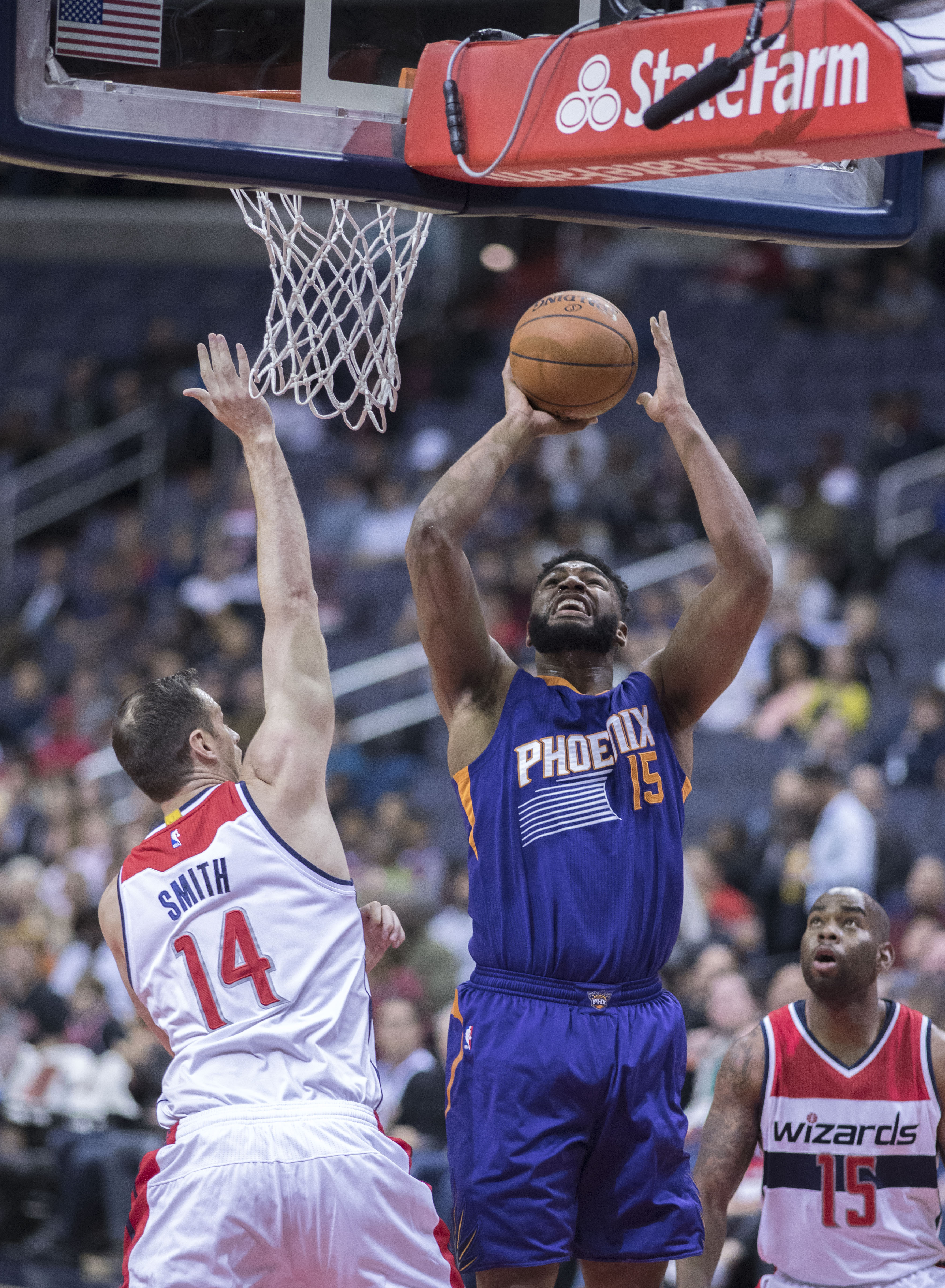 Suns at Wizards 11/21/16